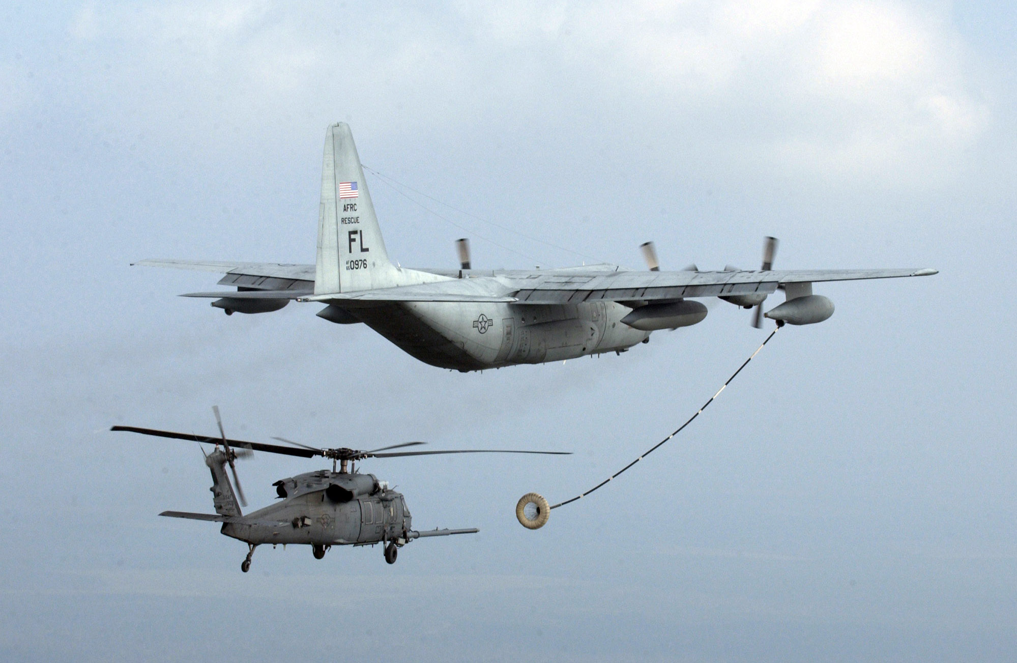 An Air Force Special Operations Command HC-130P refuels a HH-60 Pave Hawk helicopter in the sky over southern Louisiana. Air Force search and rescue crews have been searching for Hurricane Rita survivors. Its in-flight refueling capability allows the helicopter crews to continue search and rescue missions for several hours.